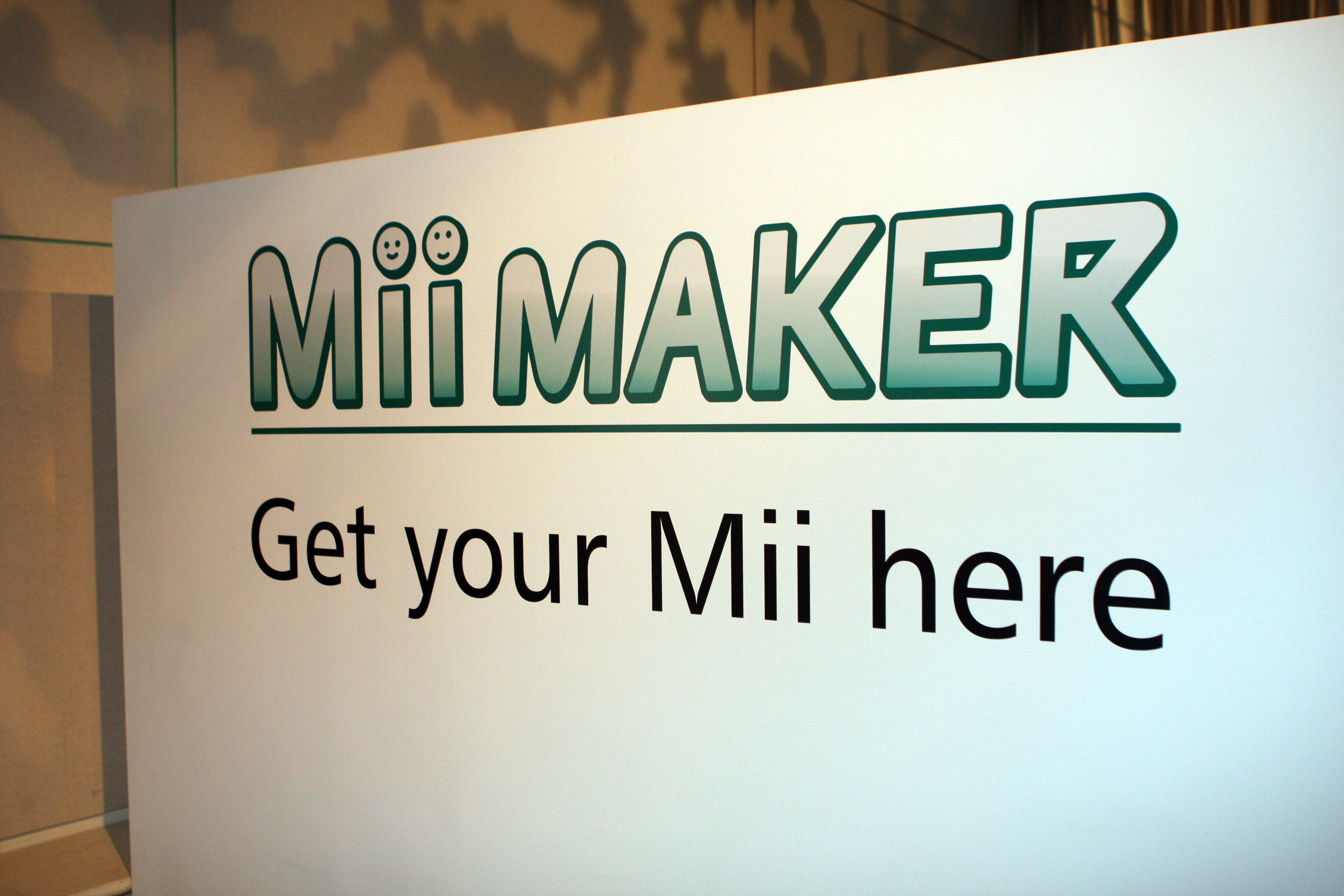 Nintendo 3DS LAUNCH